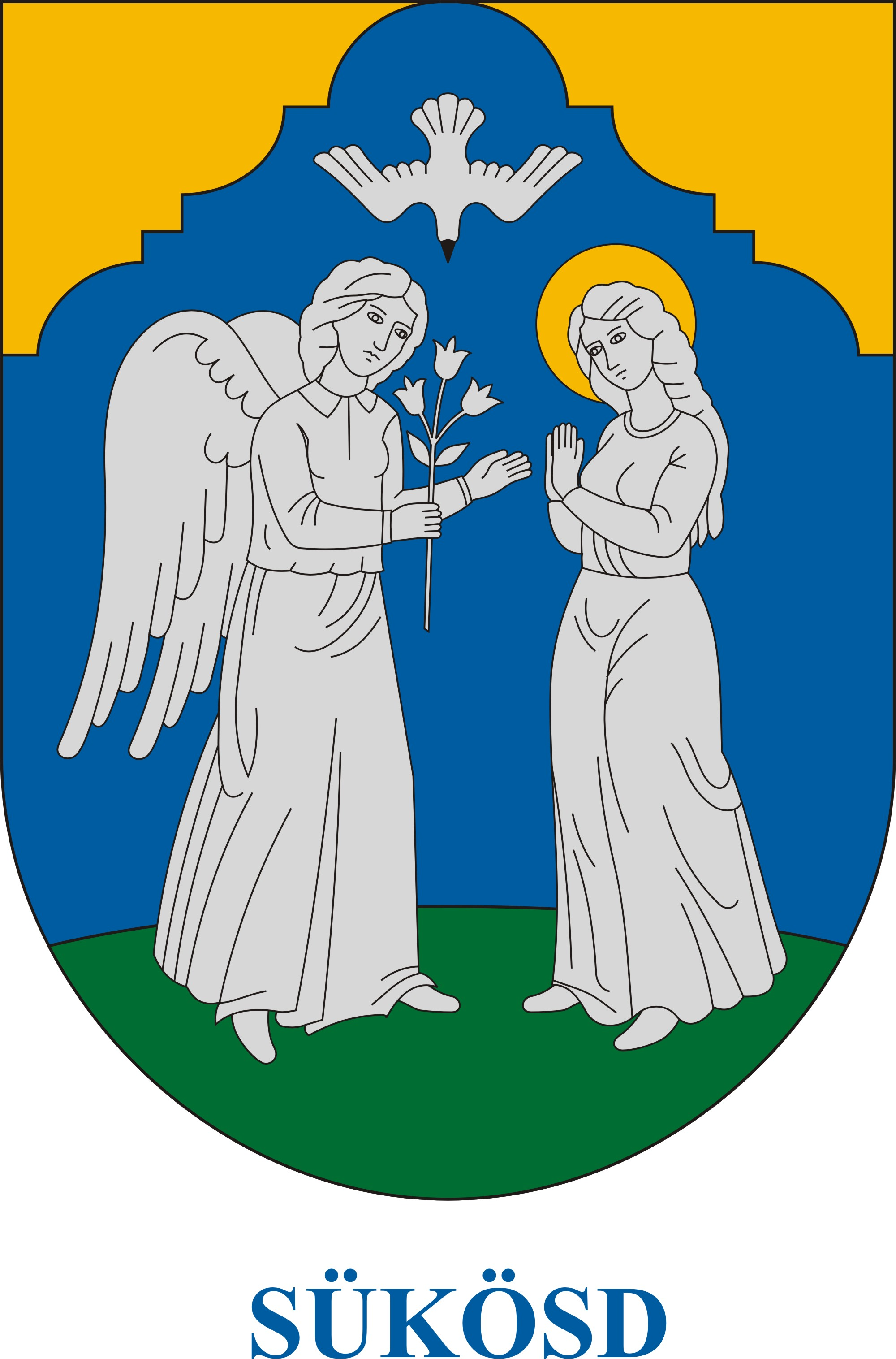 Coat of arms of Sükösd, Hungary